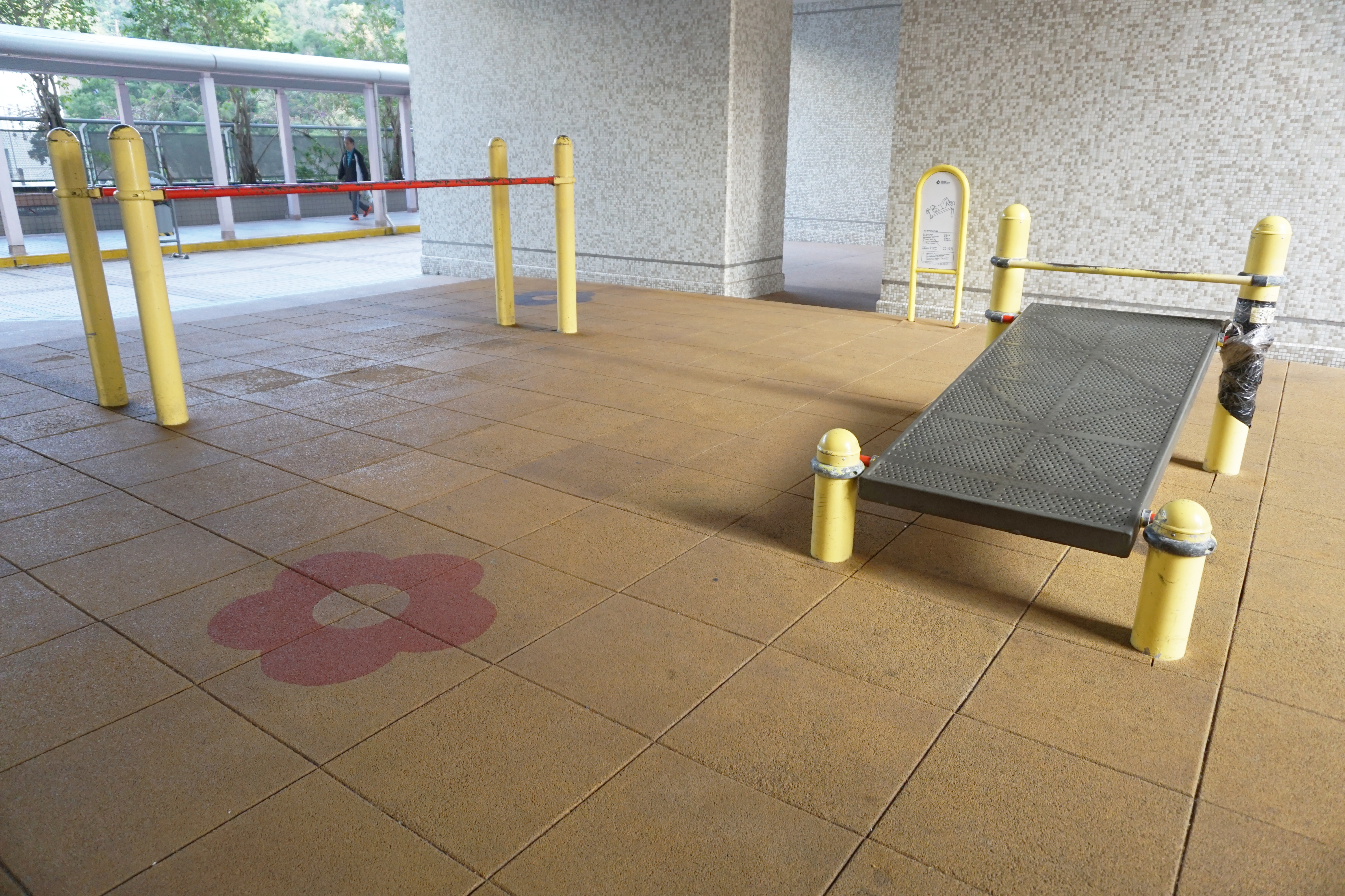 Yau Tsui Court in Yau Tong, Hong Kong.